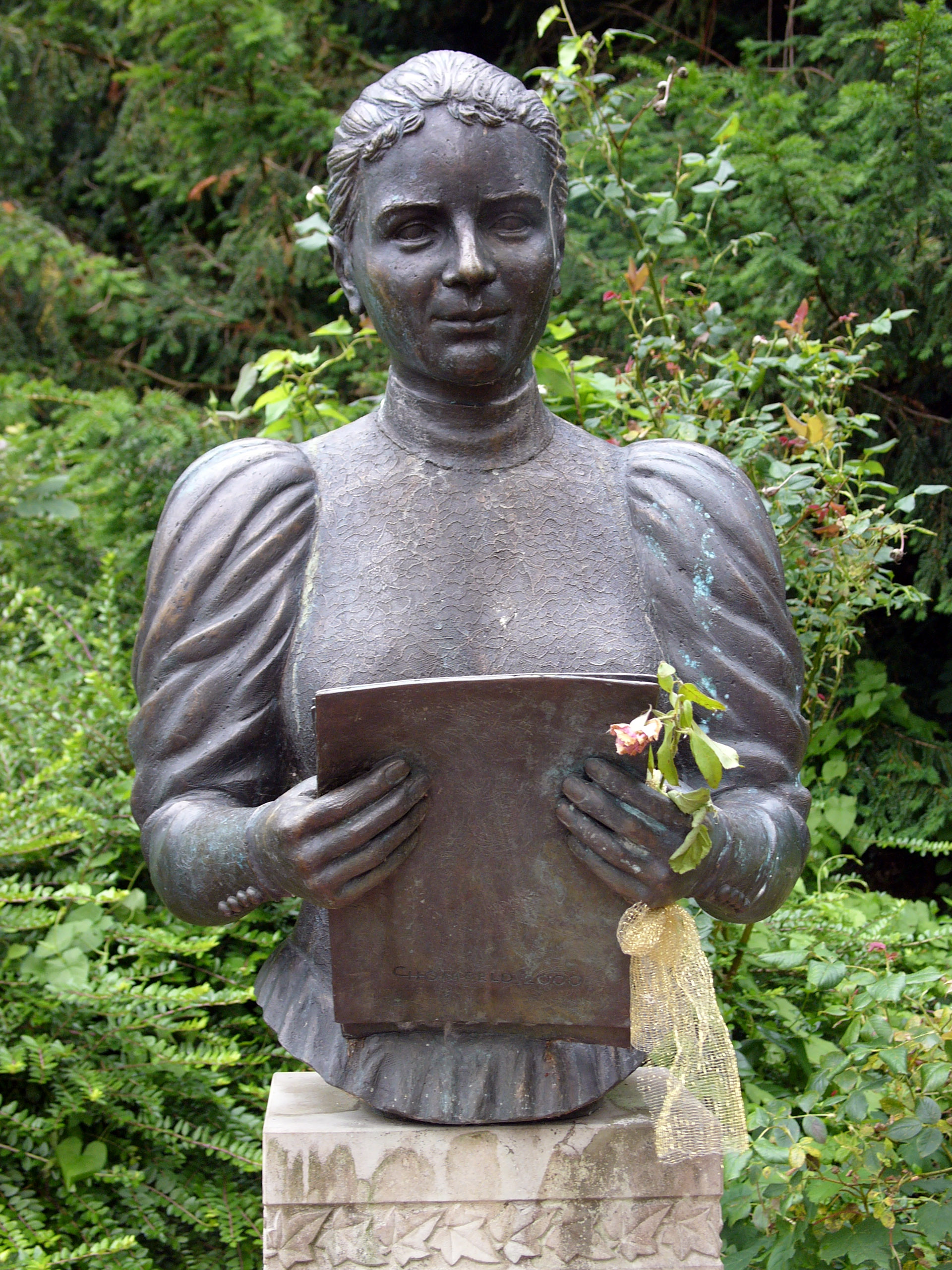 Memorial of Magdalena Pauli in St. Magnus Park, Burgleseum, Bremen, Northern Germany.